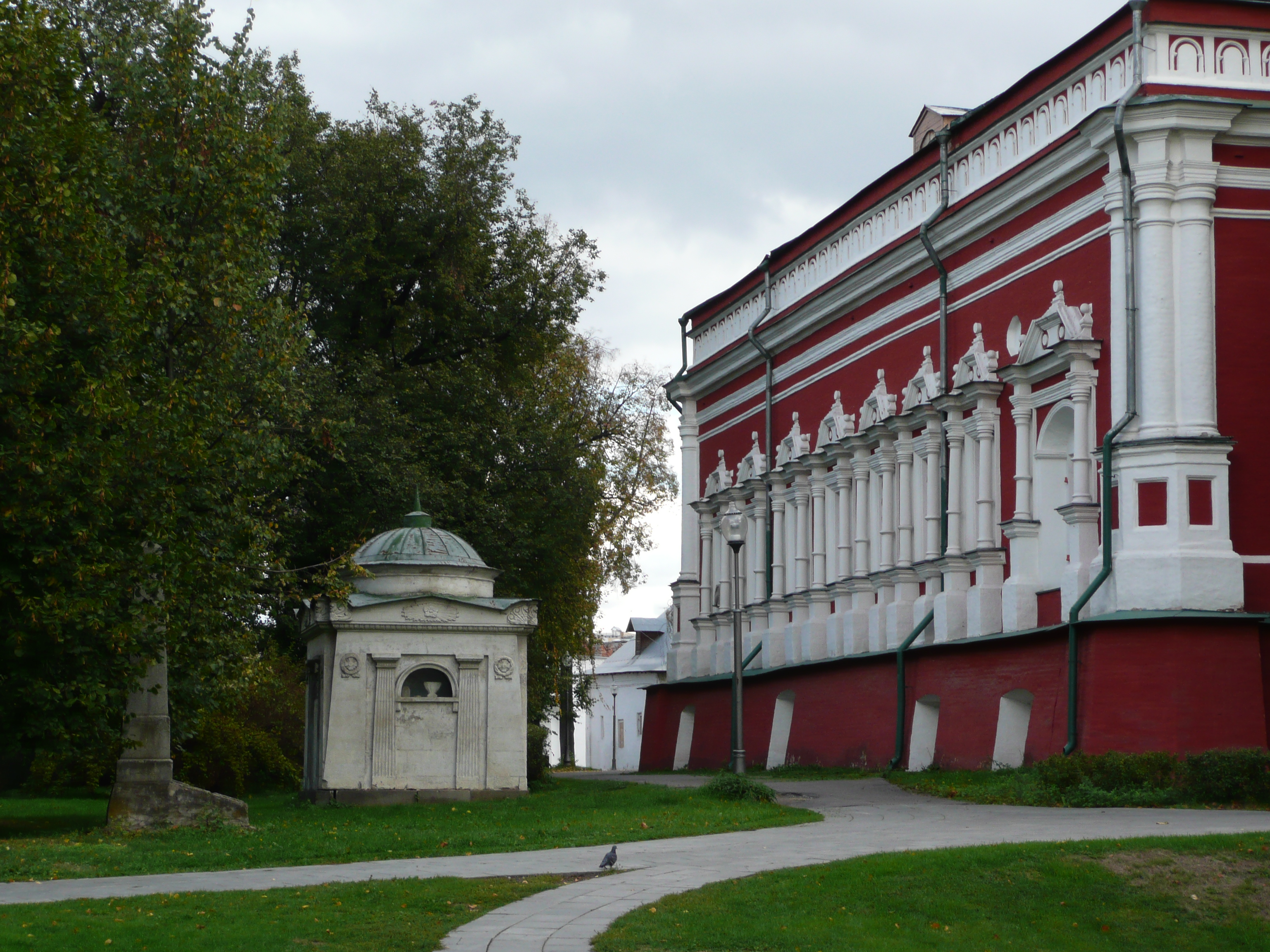 The Volkonsky Mausoleum at the Novodevichy Convent